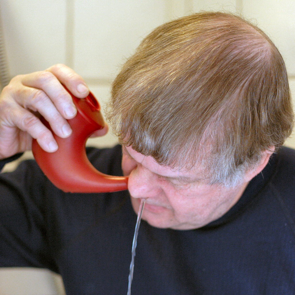 A man doing nasal irrigation